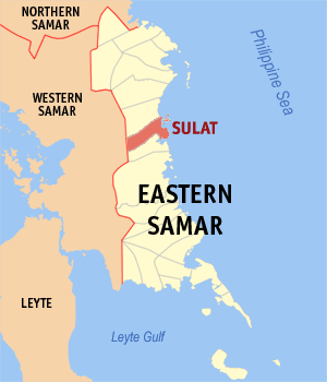 Map of Eastern Samar showing the location of Sulat